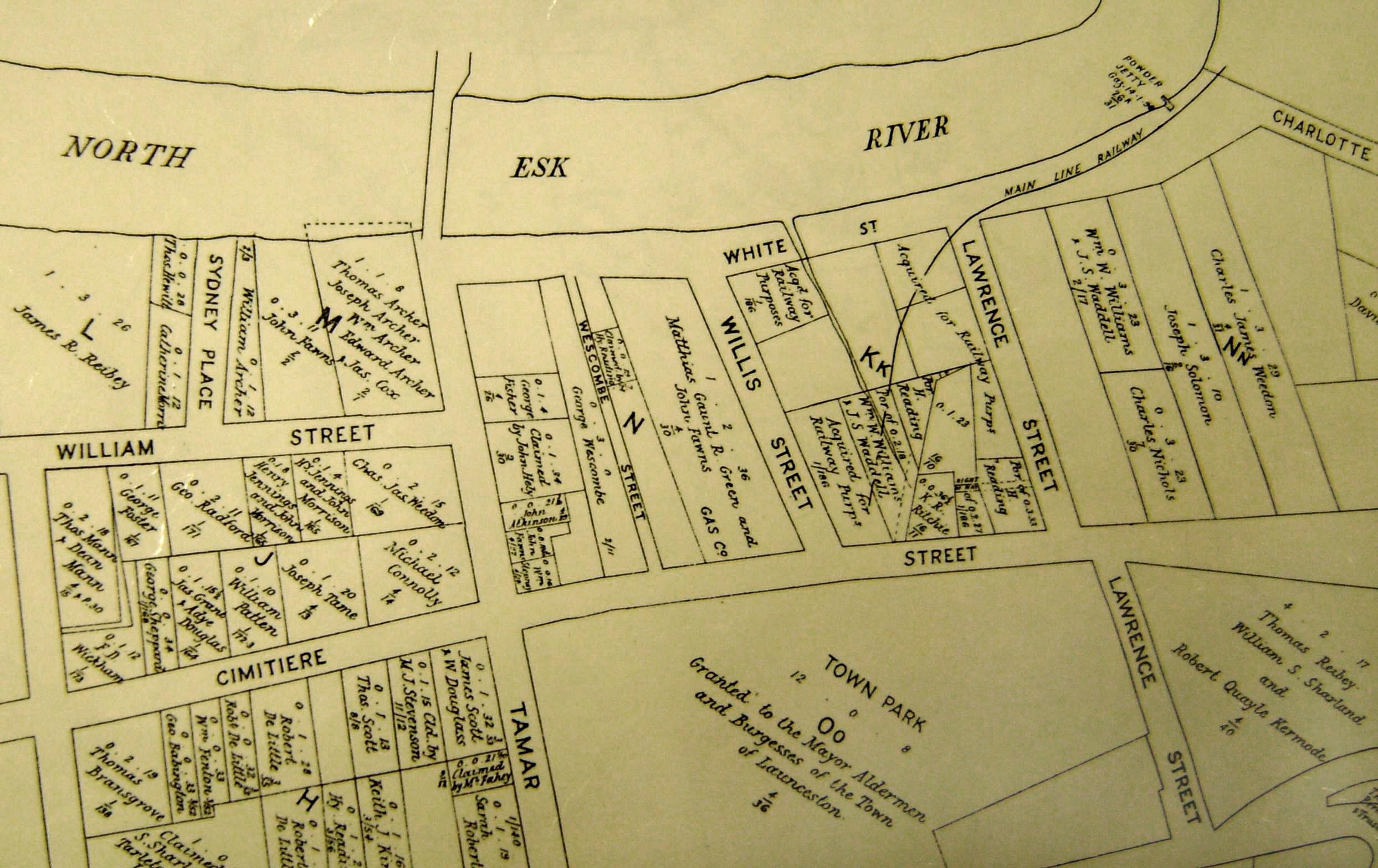 Part of a 1914 property map of Launceston's gas works site